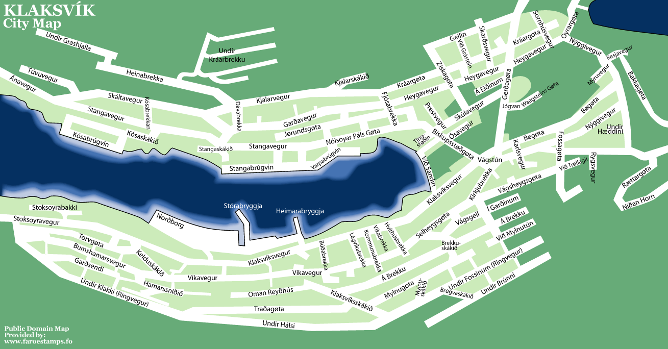 Klaksvík, main city of Norðoyar